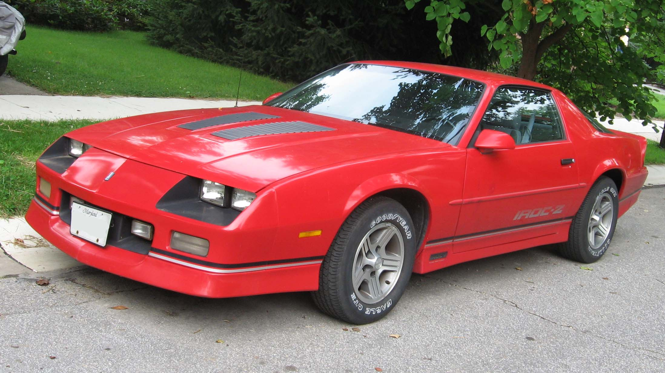 1985-1990 Chevrolet Camaro photographed in USA.